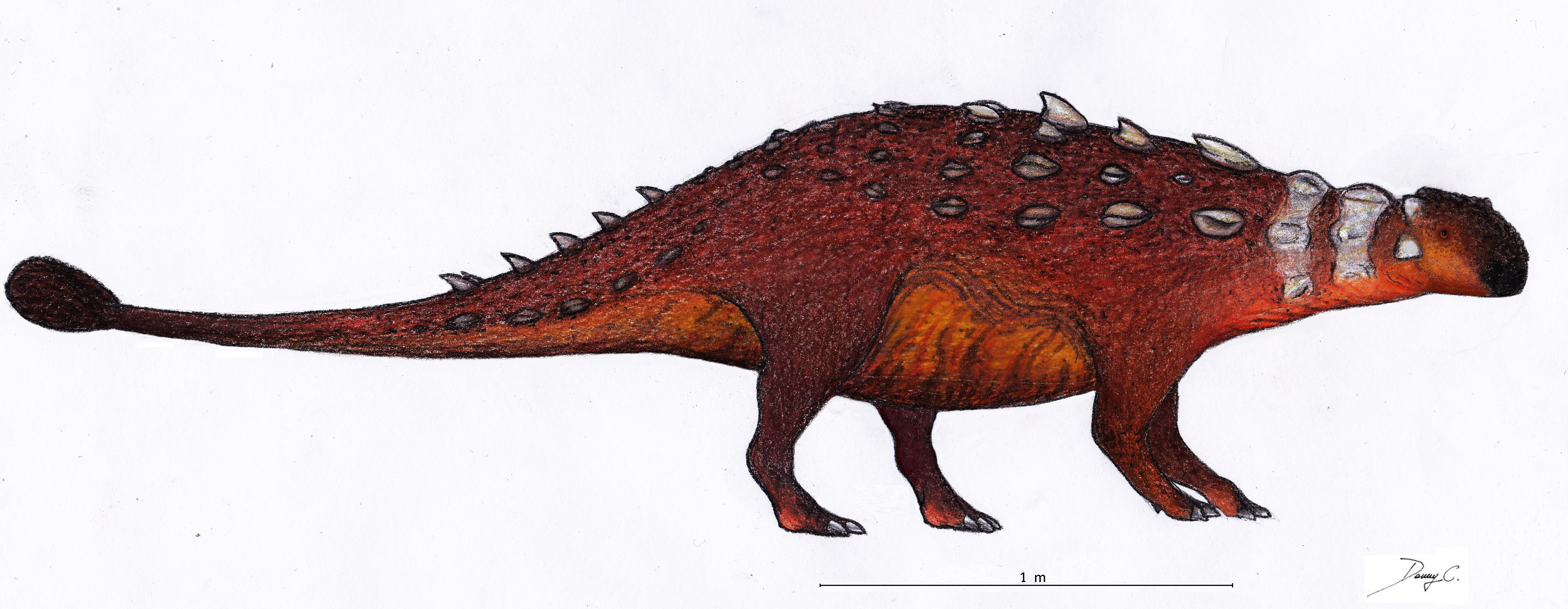 Life reconstruction